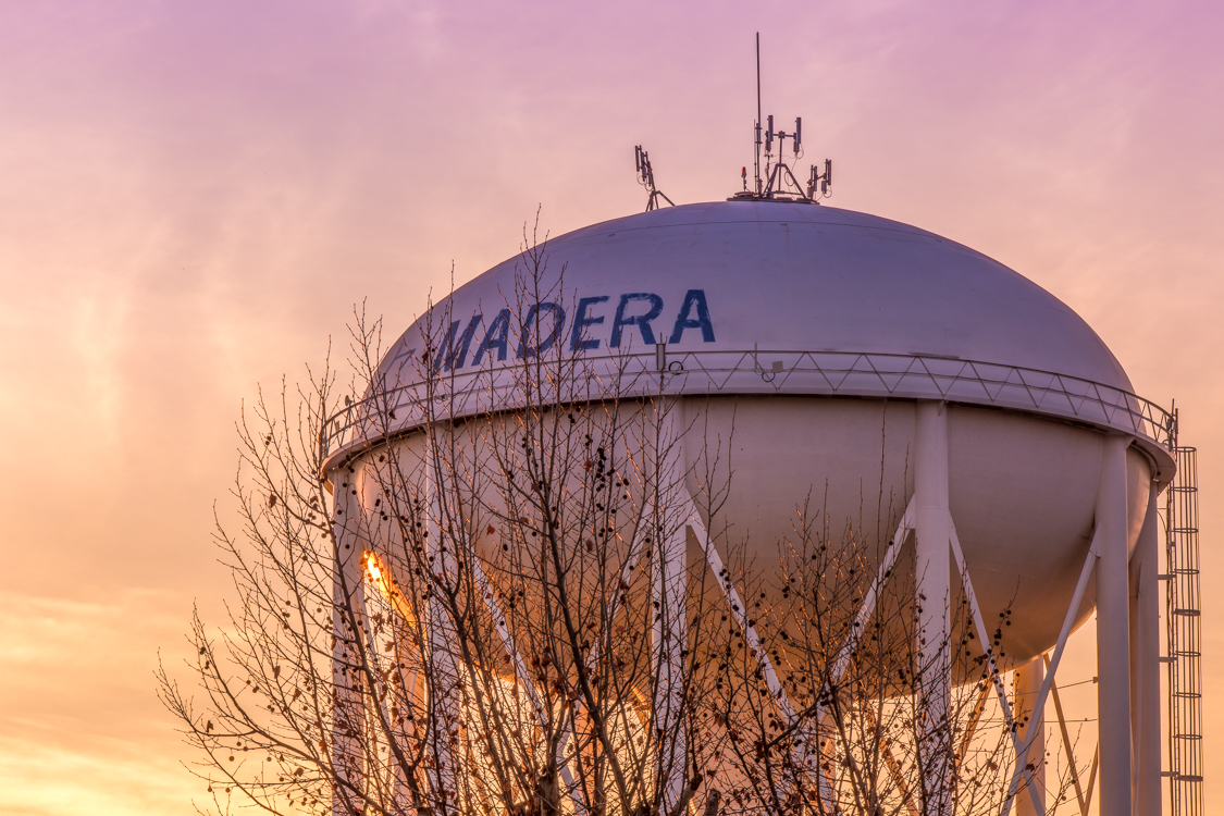 Photograph of City of Madera Water Tower taken during a Fall sunset.